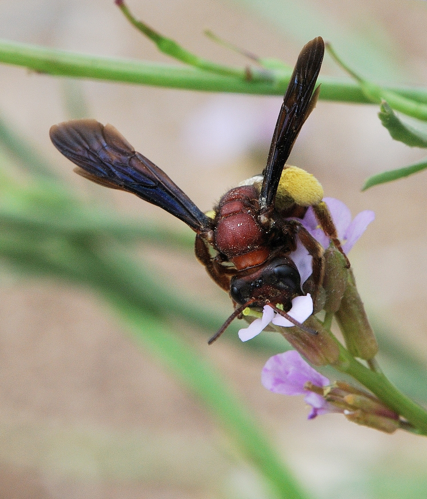 Female Andrena fuscosa foraging on Erucaria sp., Sha'alvim, Judean Foothills, Israel, June 9, 2010.